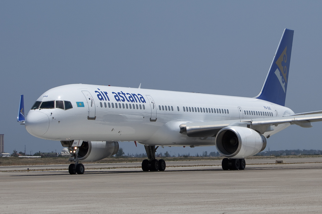 P4-GAS B757W Air Astana